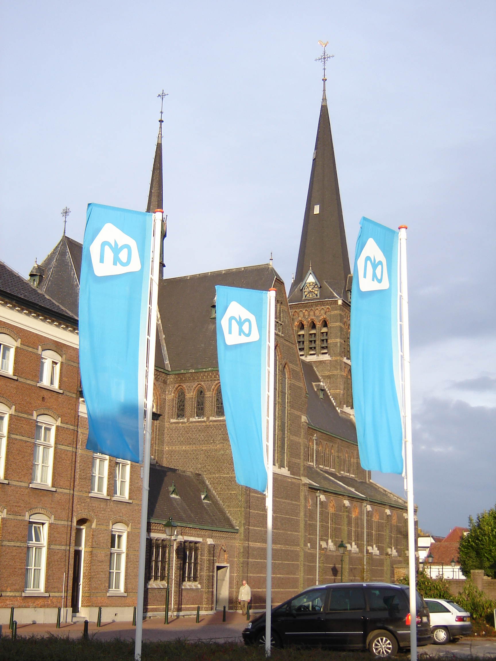 Roman catholic church of the Assumption of Mary in Sas van Gent. Sas van Gent, Terneuzen, Zeeland, the Netherlands